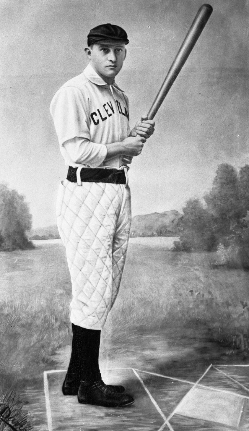 Professional baseball player Jesse Burkett